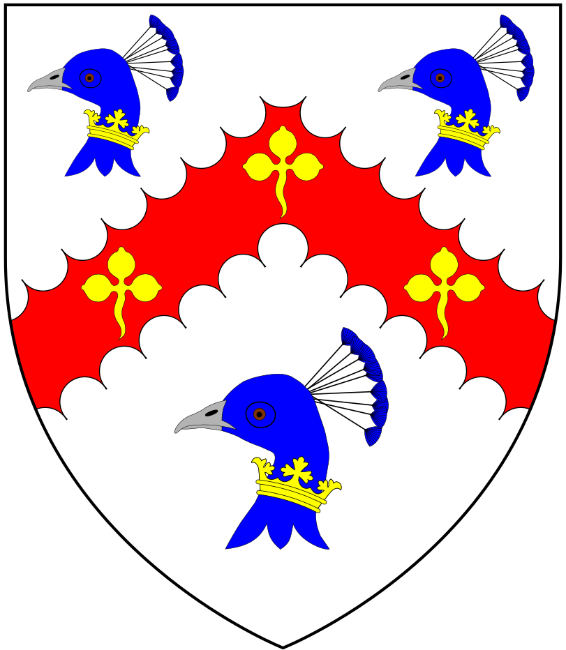 Arms of Ridgeway (ancient) of Tor Mohun in Devon: Argent, on a chevron engrailed gules three trefoils or between three peacock's heads erased azure crowns about their necks or (Source: Pole, Sir William (d.1635), Collections Towards a Description of the County of Devon, Sir John-William de la Pole (ed.), London, 1791, p.499)